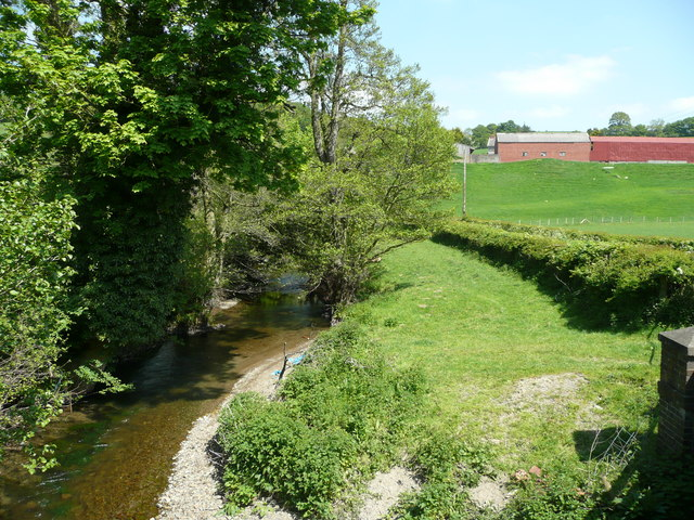 The River Mule at Goetre The red barns are part of Goetre Farm.